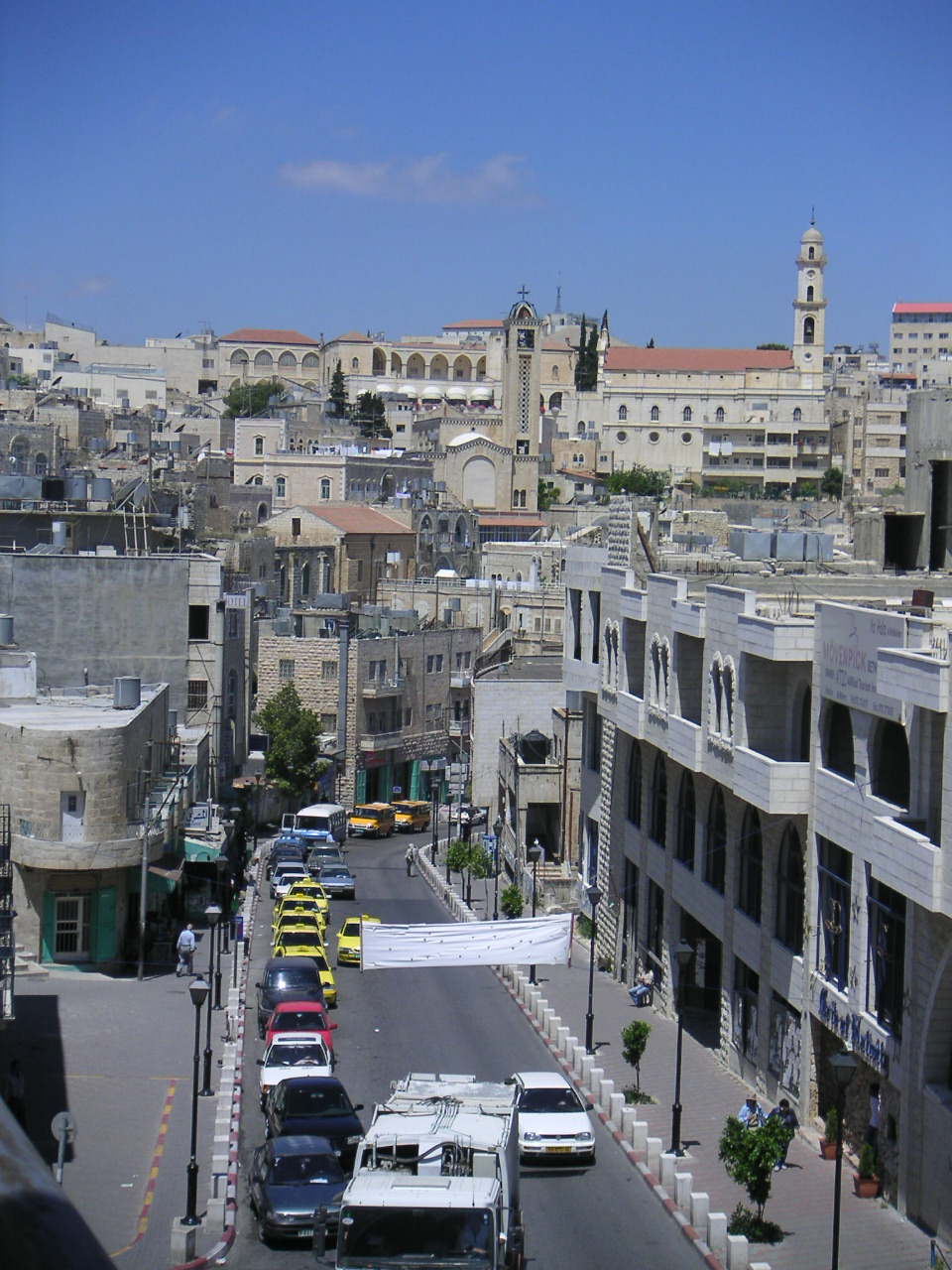 Photo: Soman